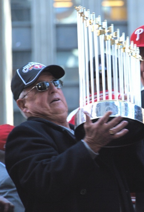 Philadelphia Phillies GM Pat Gillick holds up the 2008 World Series trophy